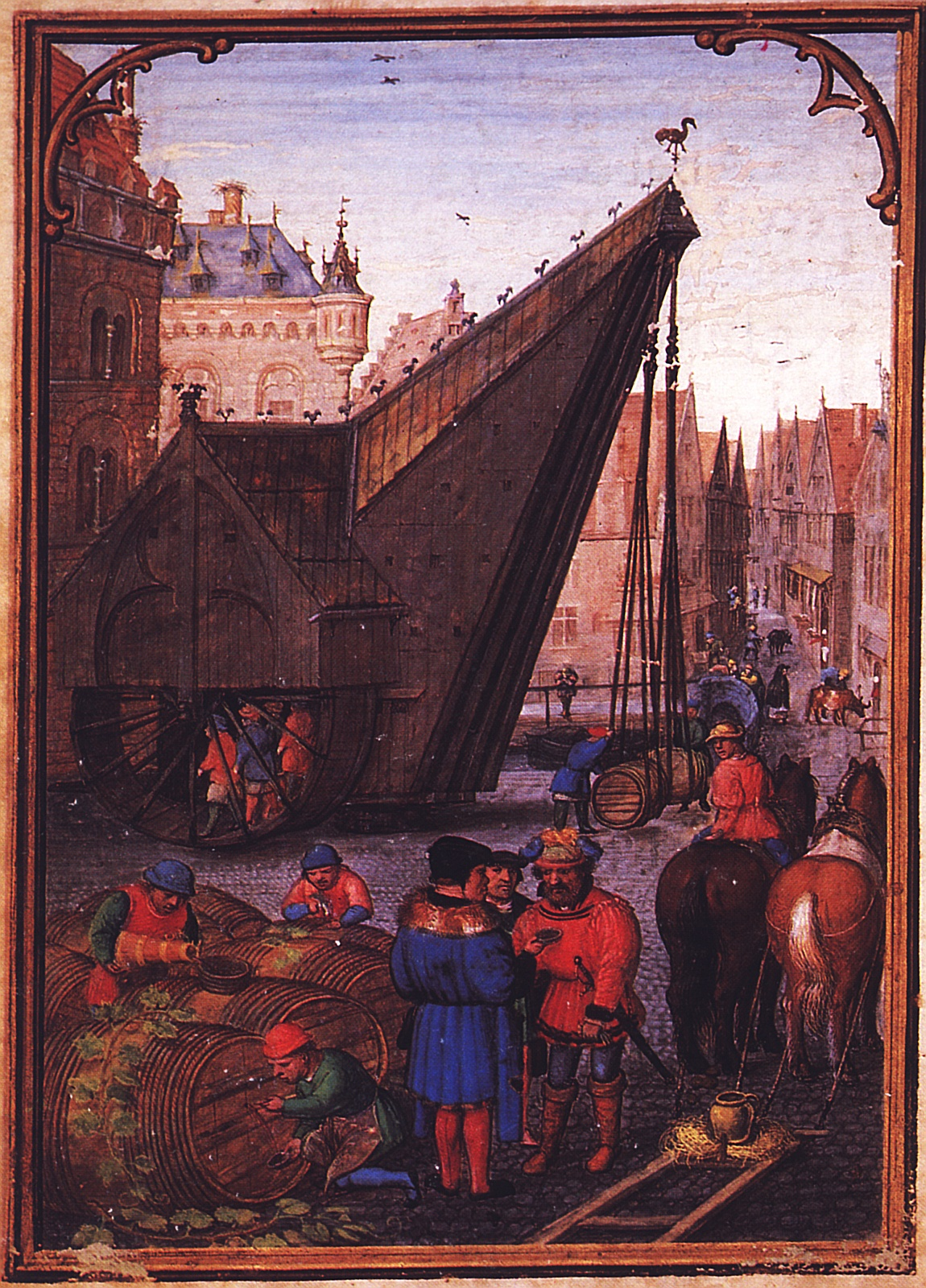 Labors of the Months: October, from a Flemish Book of Hours (Bruges)